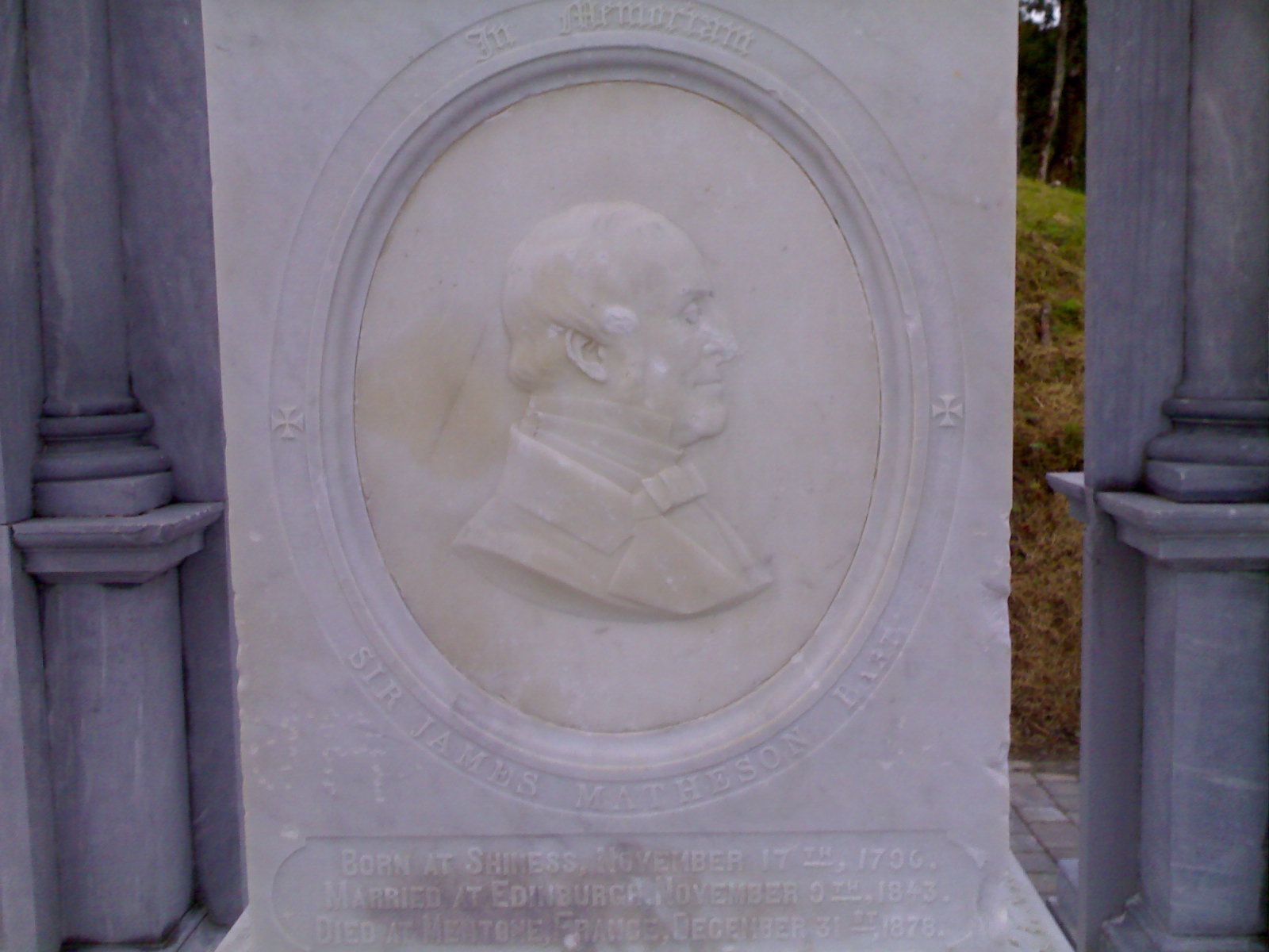 James Matheson memorial, photo taken in Stornoway Castle Grounds, September 2006.